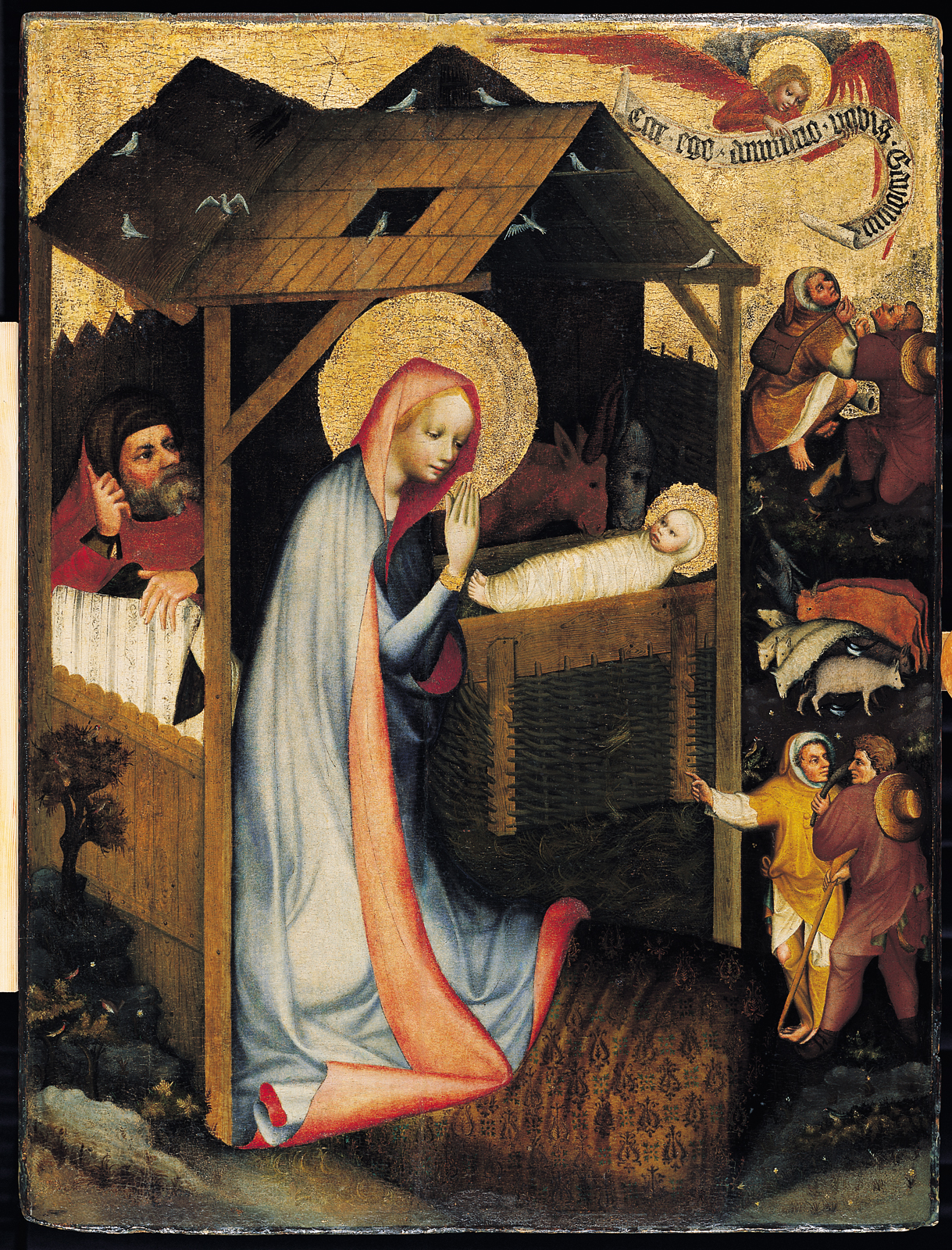 Nativity